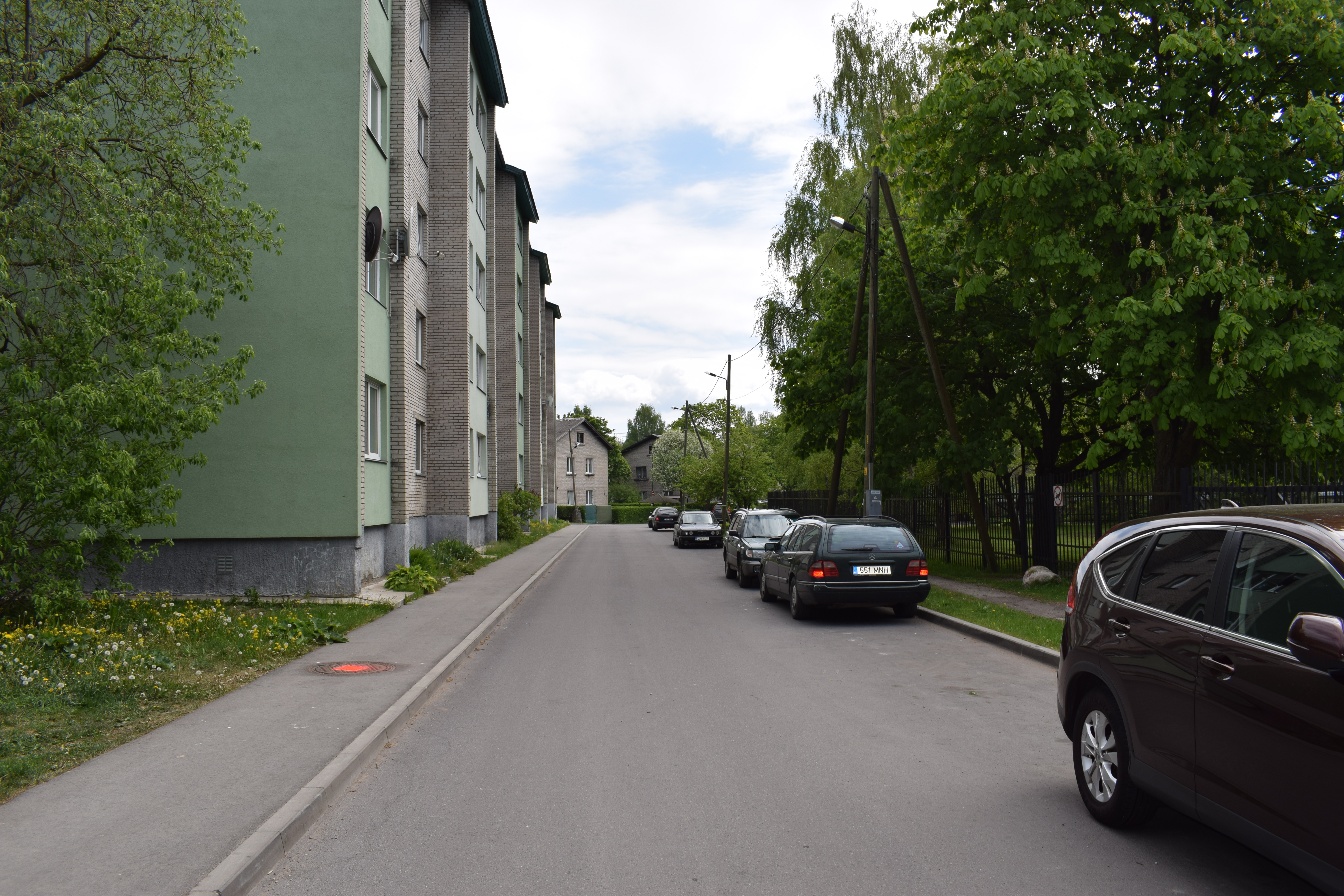 Amburi street